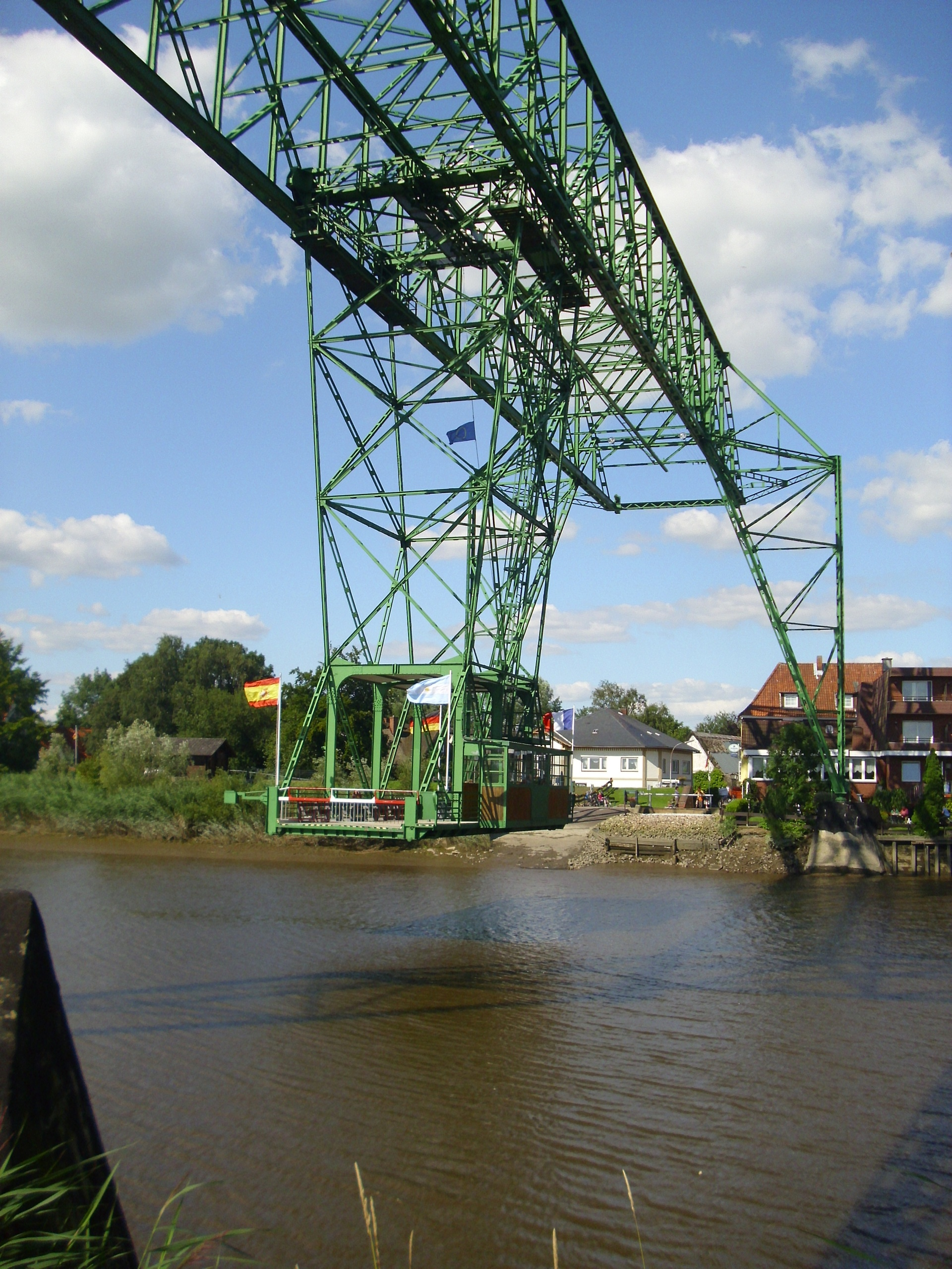 View of the transporter bridge in Osten over the Oste river, district of Cuxhaven, Lower Saxony, Germany